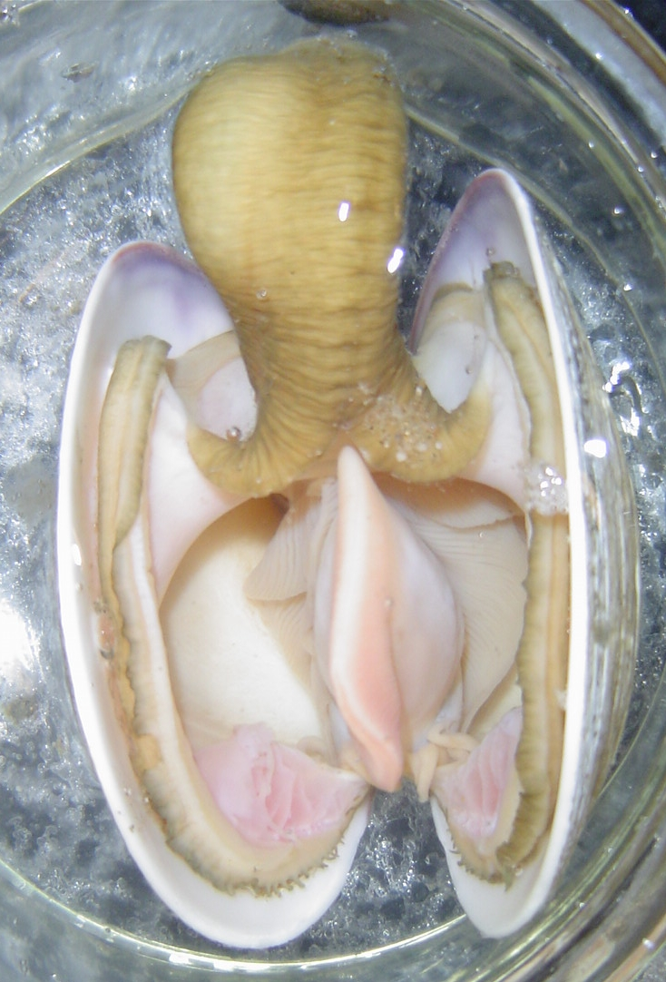 This is a cropped and rotated copy of the photo I found at . The photographer, Allen Lew, explicitly released this under the CC Attribution licence.